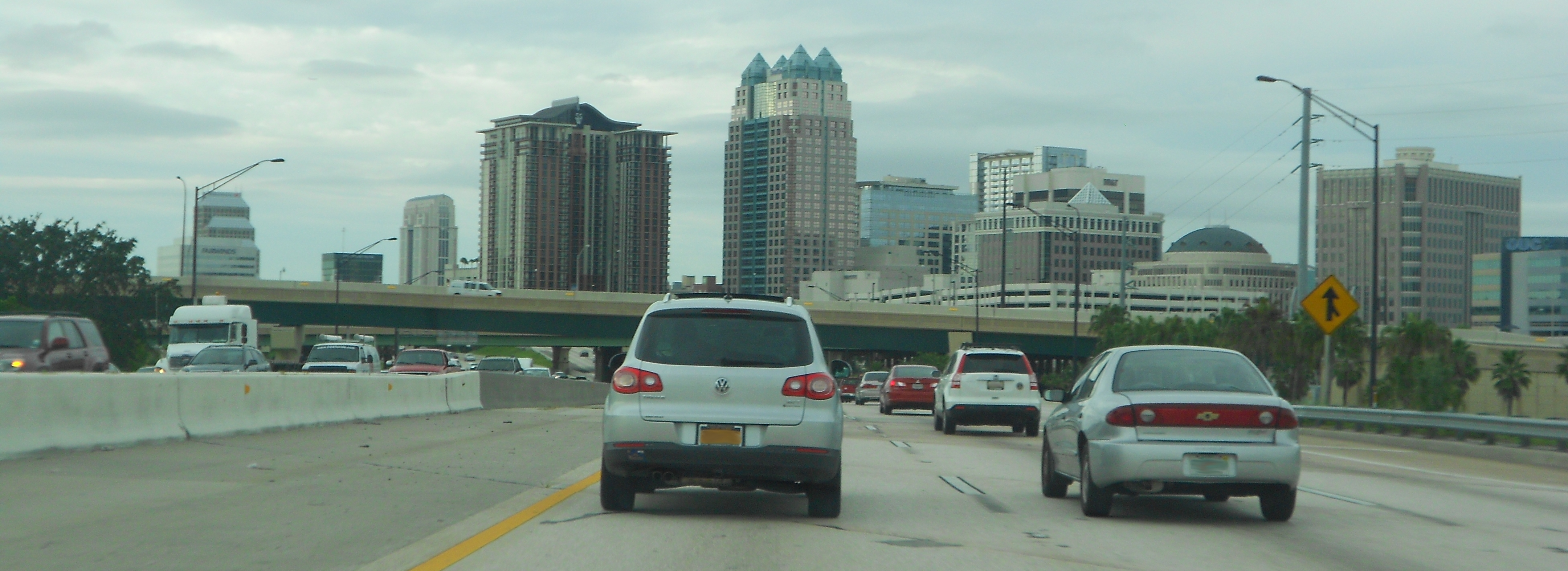 The Downtown Orlando skyline seen from I-4 eastbound.